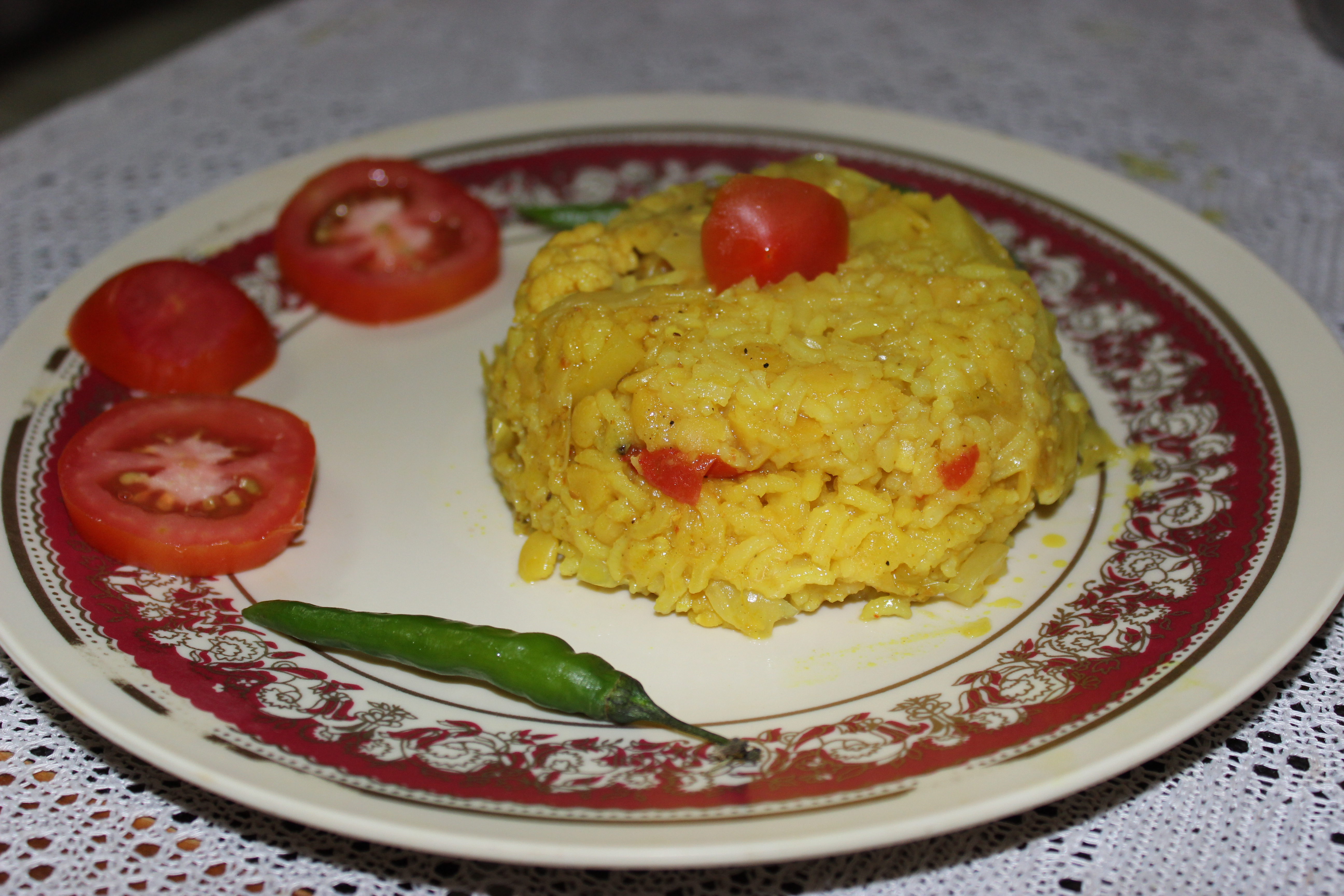 Served Masala Khichadi